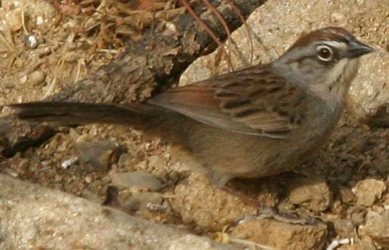 Oaxaca Sparrow